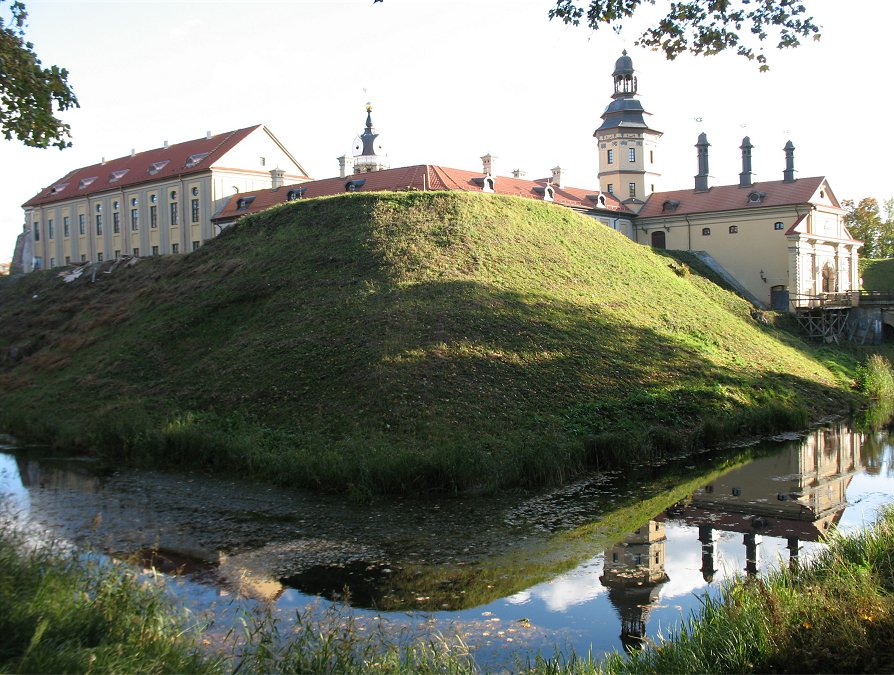 View of Nesvizh (Nesviž) castle (Нясьві́ж, Несвиж, Nesvyžius, Nieśwież) in Minsk region, Belarus.